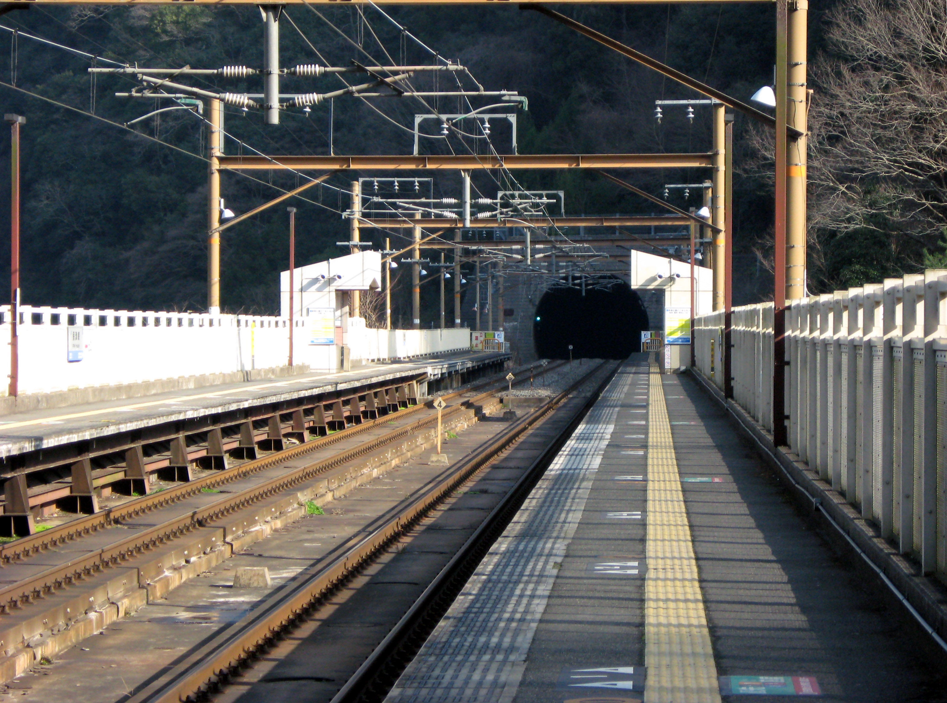 JR Hozukyo Station Whole View